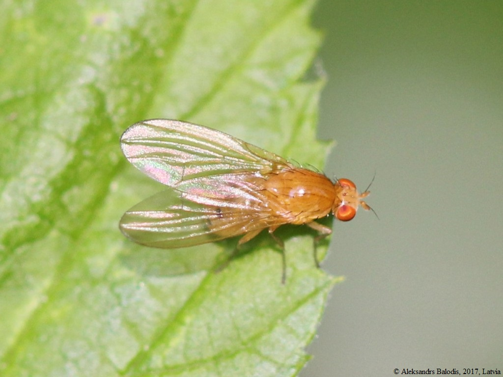 Sapromyza sexpunctata.